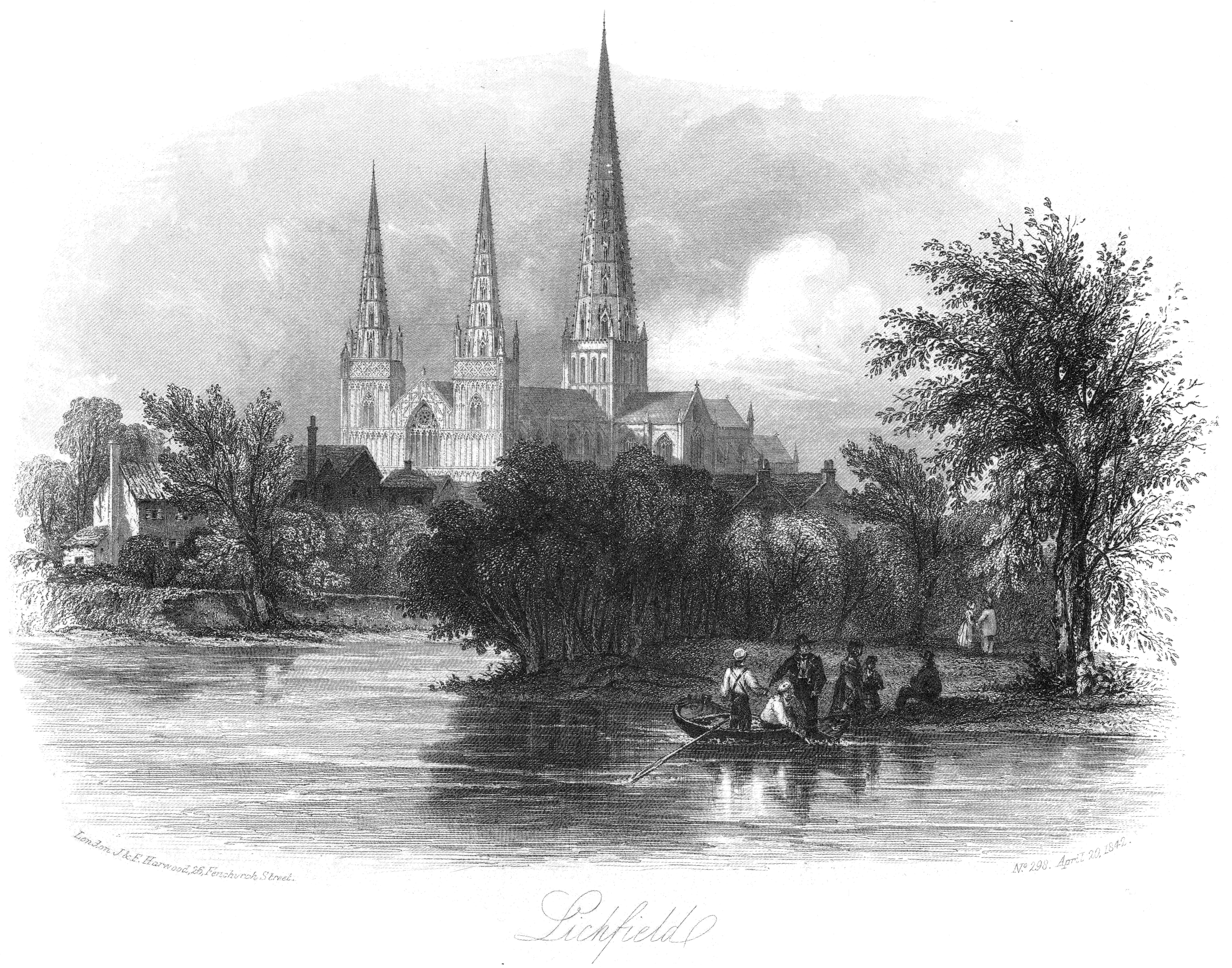 Engraving made of Bishops Fish Pool, Lichfield before it was filled in 1856. Date on the drawing reads 1842 although it may have been sometime earlier in the 19th century. The original print of this image was published by J & E Harwood of London.